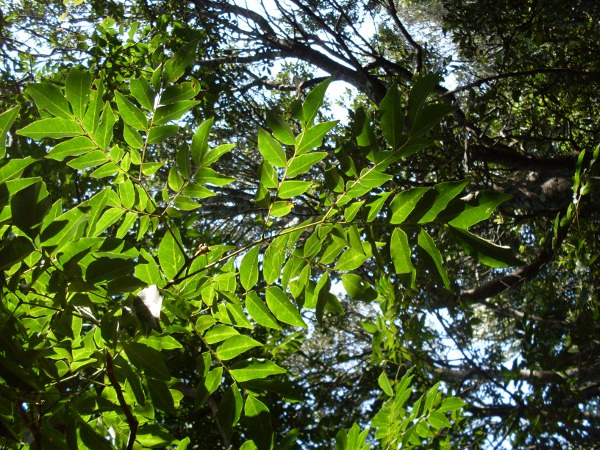 Pararchidendron pruinosum leaves at Barrenjoey